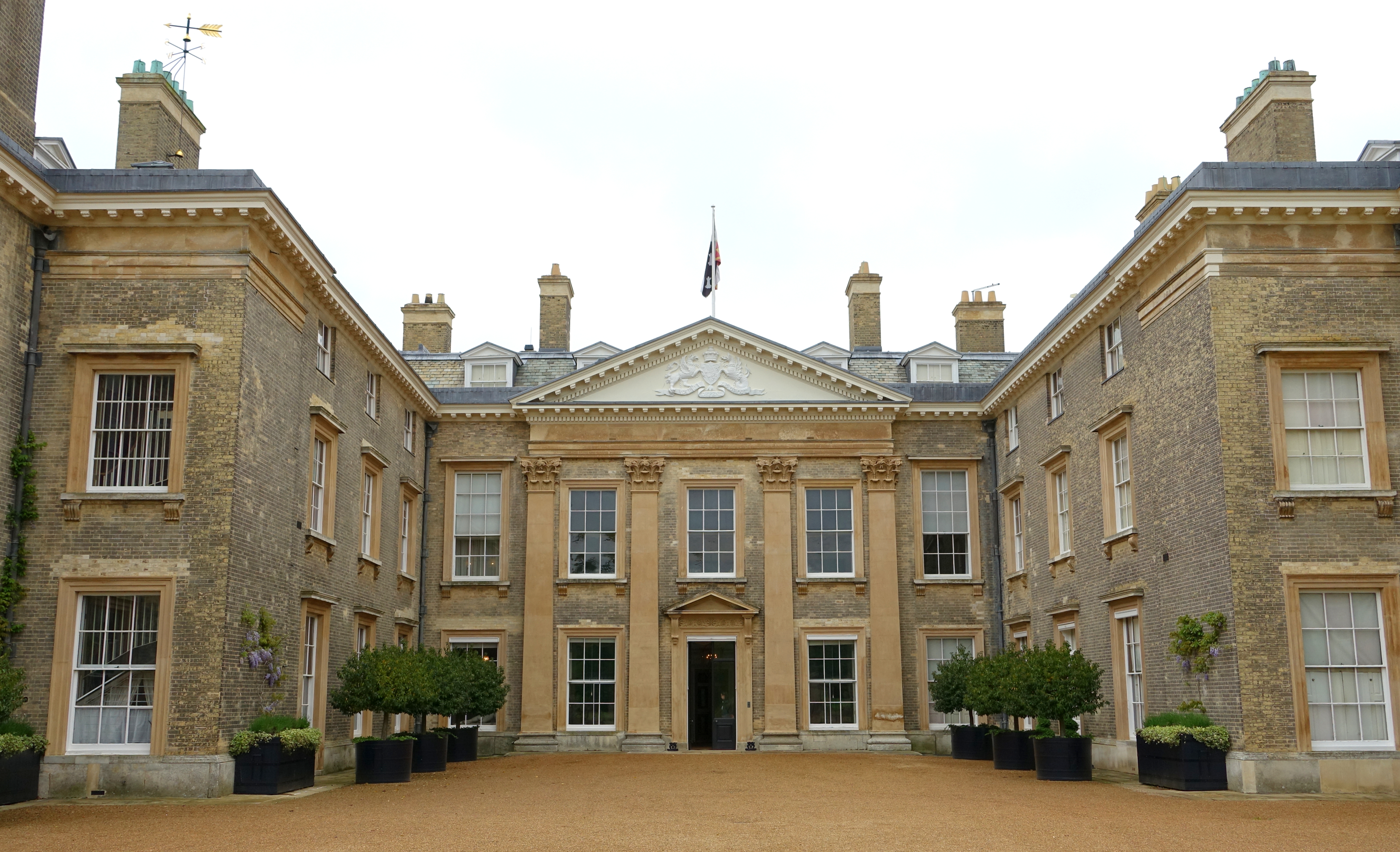 Althorp House - Northamptonshire, England.